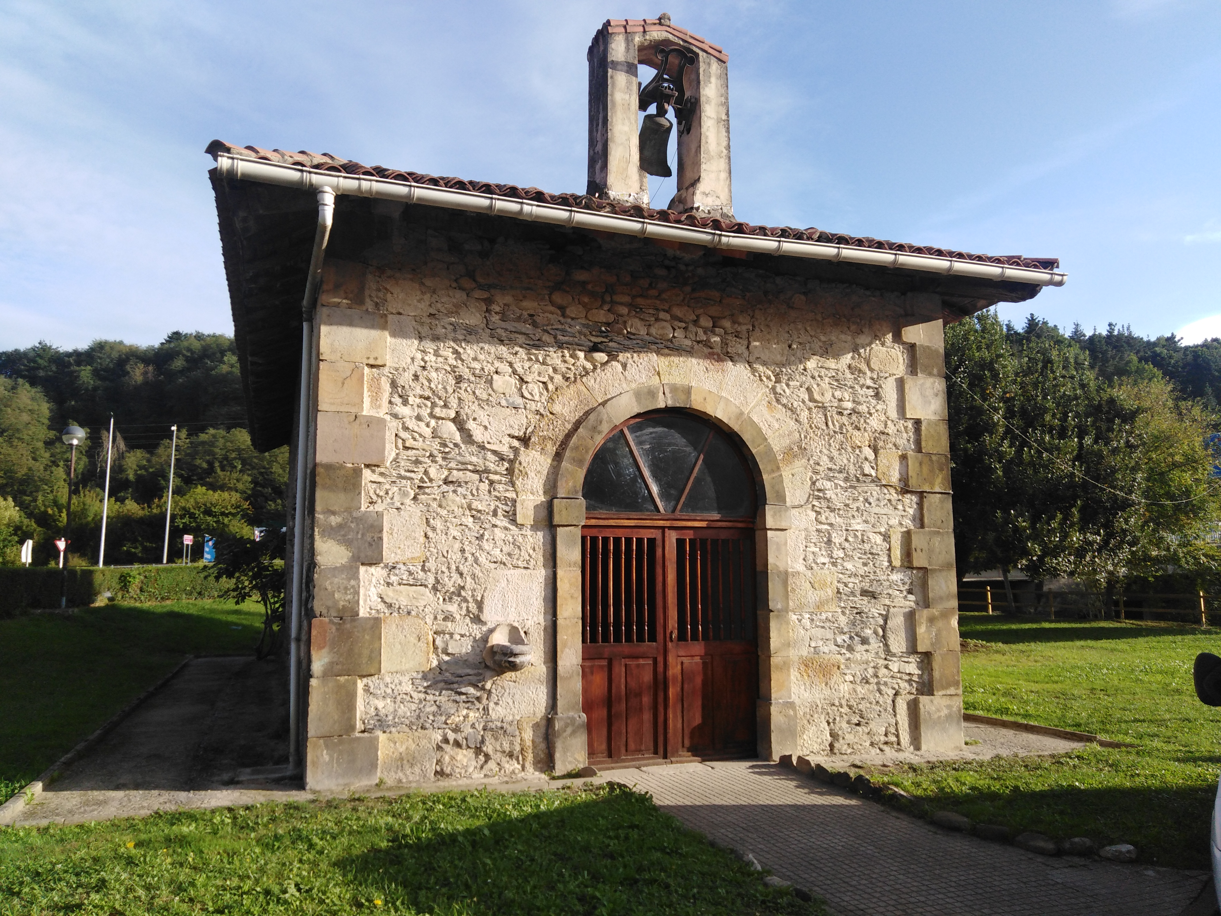 San Bartolome hermitage, Ordizia, Gipuzkoa, Basque Country